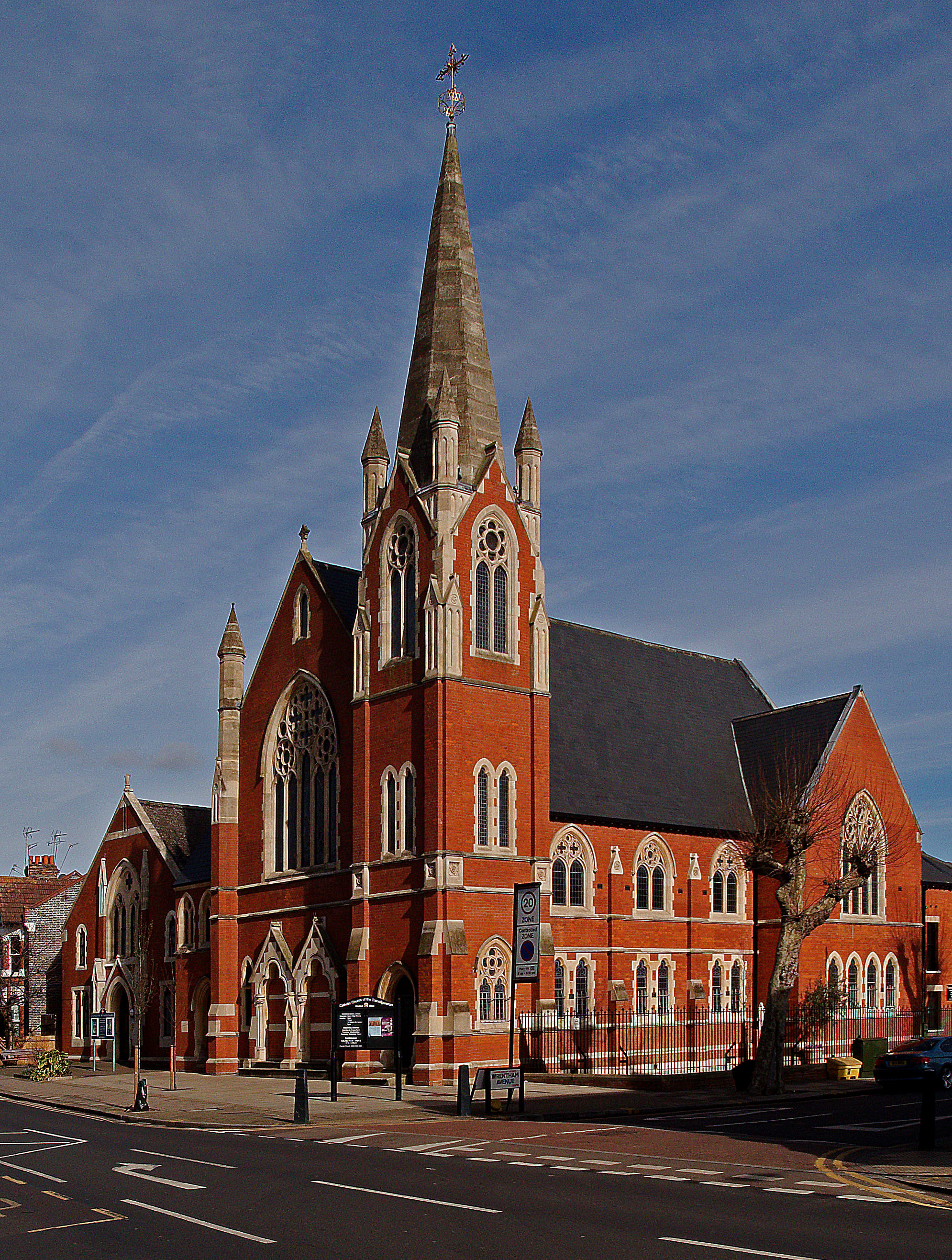 Church of the Transfiguration, Kensal Rise